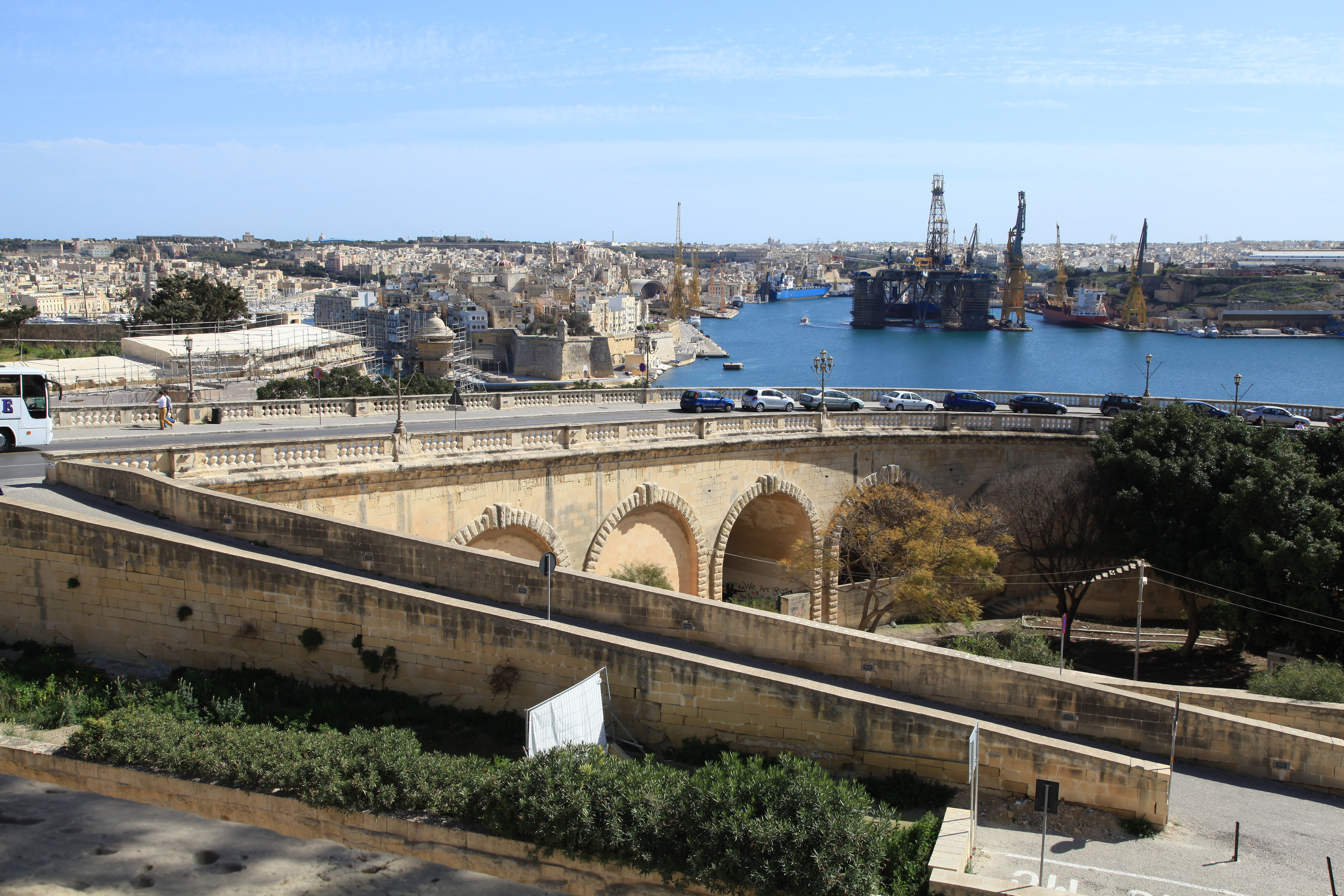 View from the St. James' Bastion to Triq Girolamo Cassar in Valletta, Malta